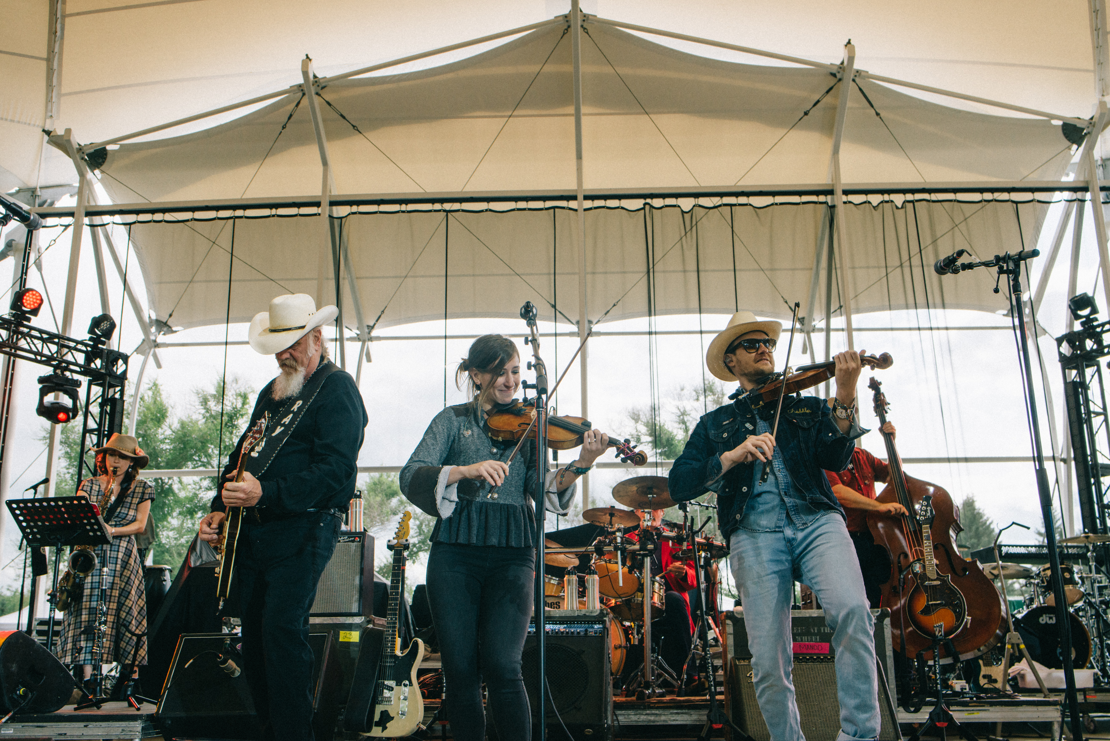 Asleep at the Wheel Interstellar Rodeo 2019